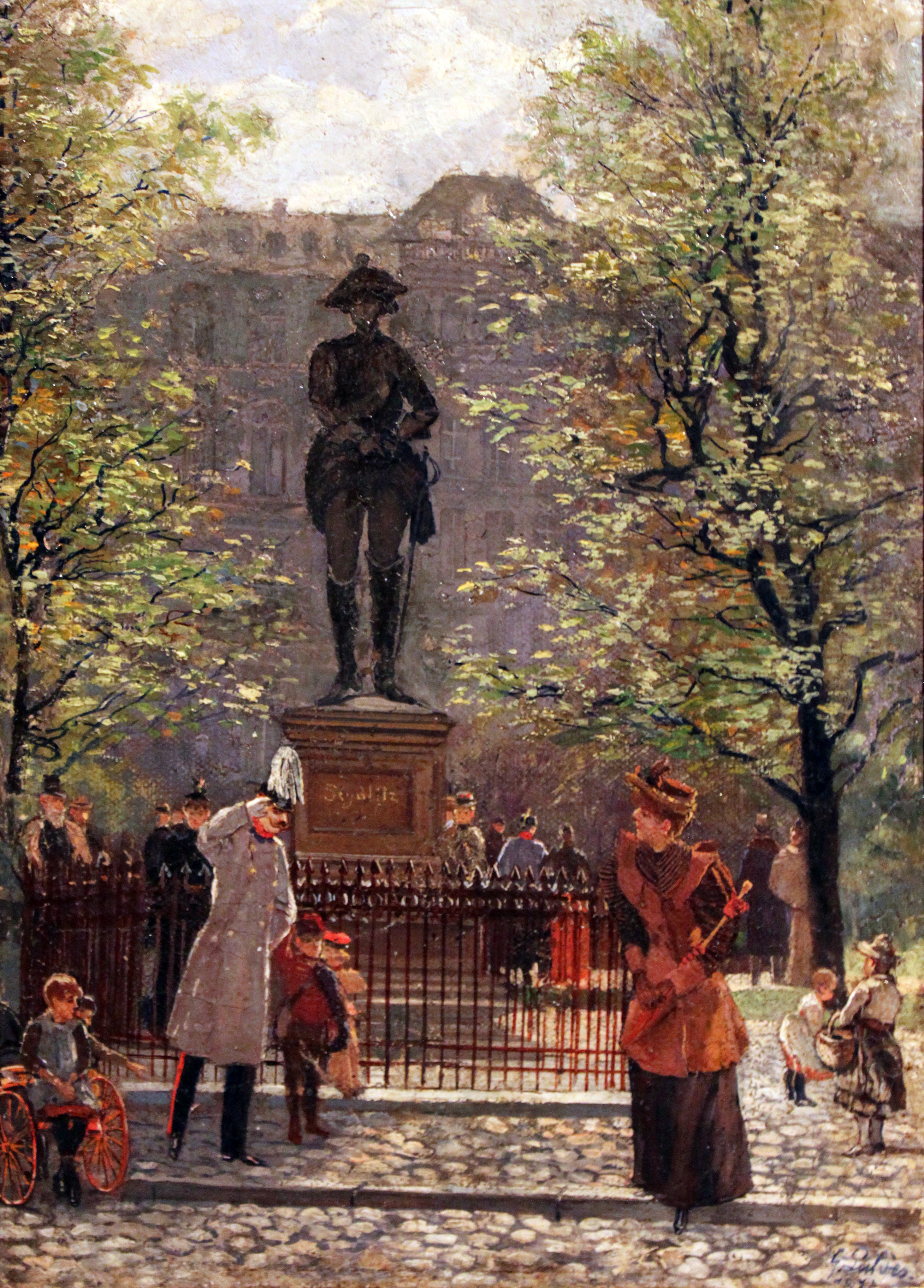 Statue of General von Seydlitz on the Wilhelm Platz in Berlin.